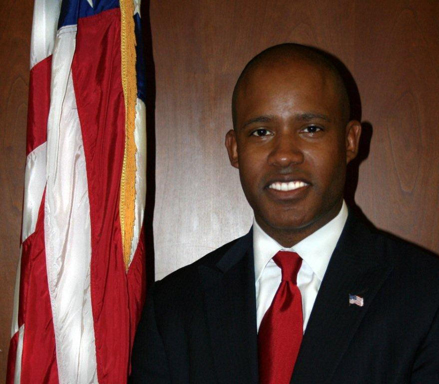 Kenneth Allen Polite, Jr., United States Attorney for the Eastern District of Louisiana